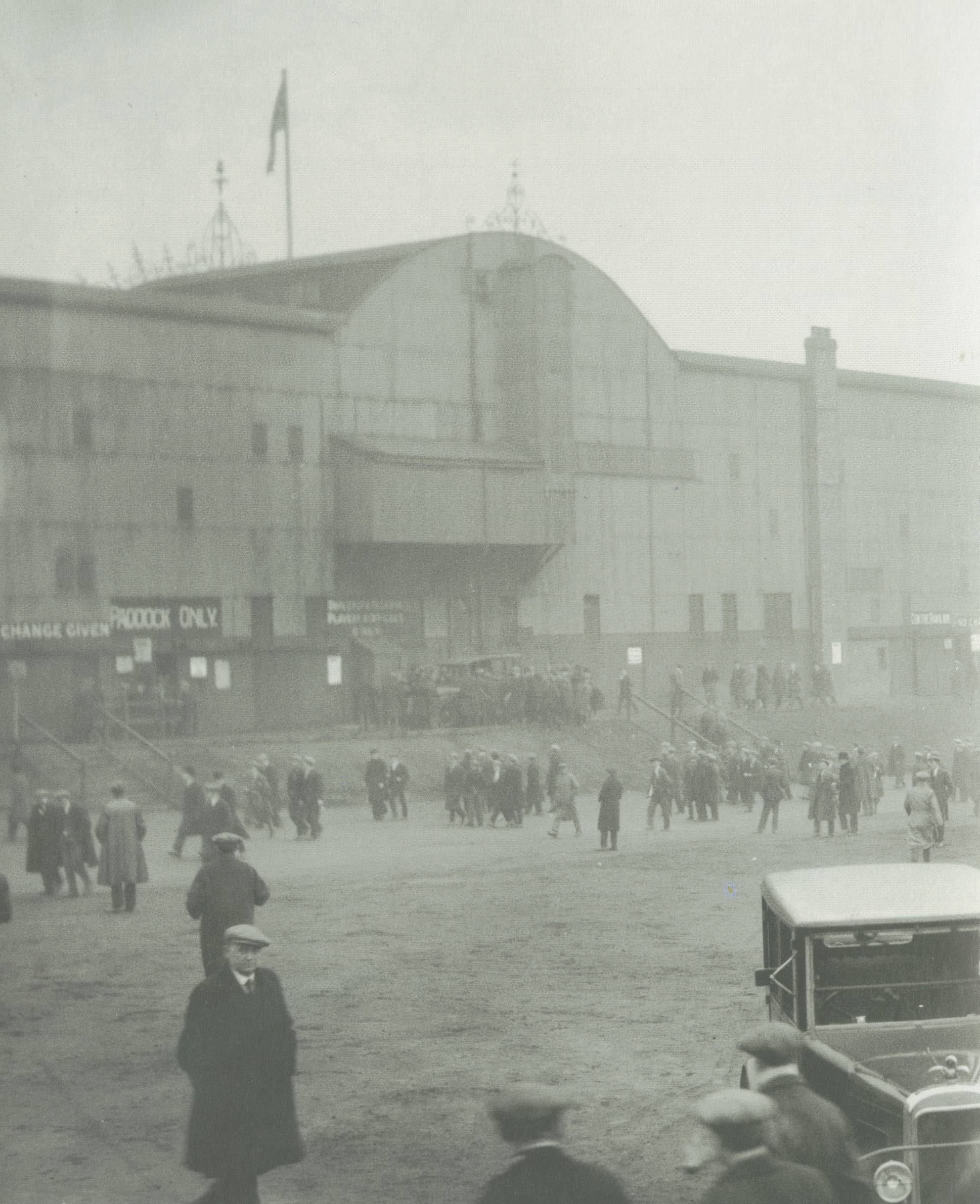 Image of St James' Park in 1930. Scanned from page 326 of "Football: The Golden Age" by John Tennant (ISBN 0-7537-1072-2), which specifically states that the identity of the photographer is unknown, therefore under the terms set out in the template below it is believed to now be in the public domain.